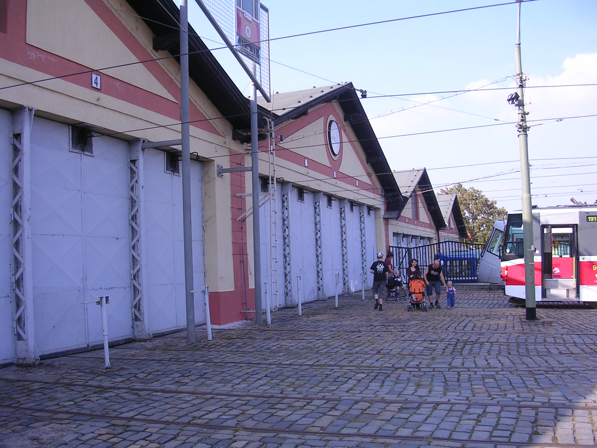 Střešovice, Prague, the Czech Republic. Open Doors Day in Střešovice tram depot and transport museum.